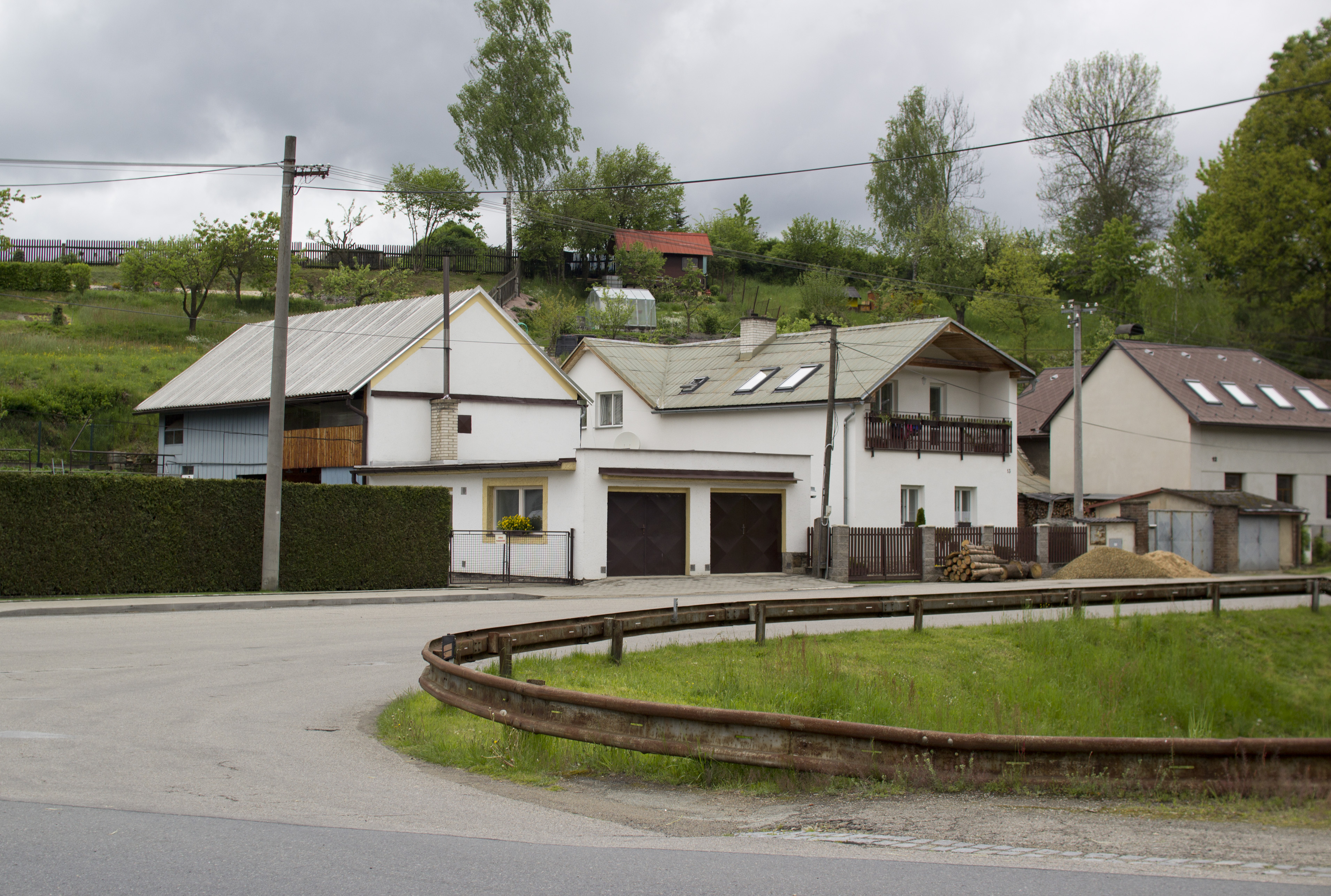 Dobrá, Přibyslav, Havlíčkův Brod District, Vysočina Region, Czech Republic